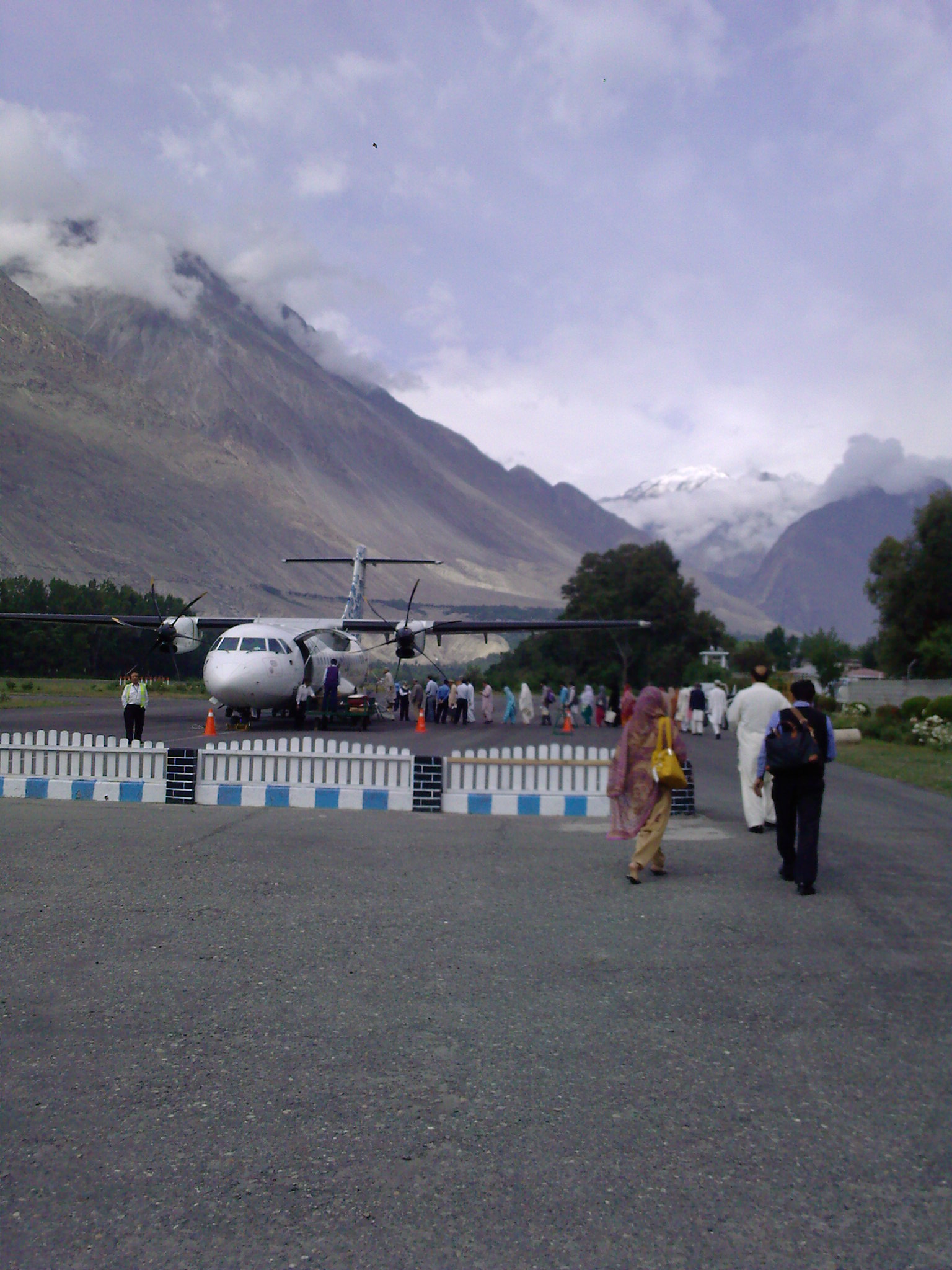 Gilgit airport, Pakistan